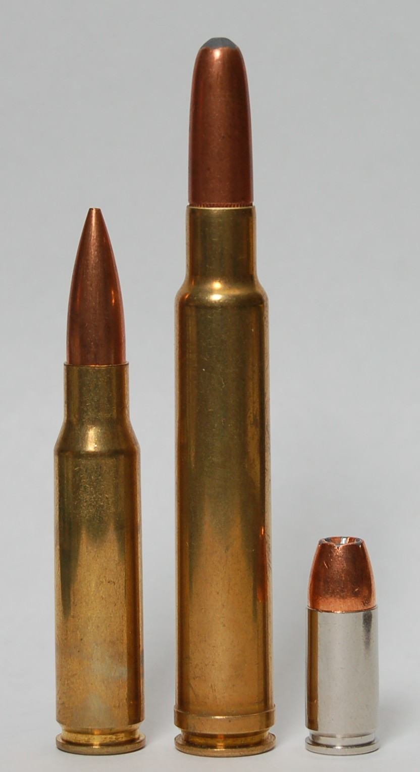 A .340 Weatherby Magnum cartridge with a .308 Winchester and 9x19mm cartridge for comparison. The .340 is loaded with a 250 grain Hornady RNSP bullet. The .308 is a factory Federal Cartridge match load with a 168 grain HPBT Sierra match bullet. The 9mm is a factory Pro Load defense load with a 124 grain GDHP.